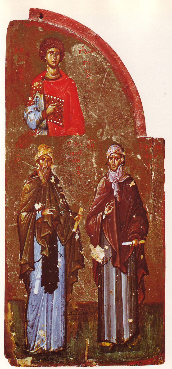 Three saints: George, John of Damascus, Ephrem the Syrian. Part of a triptych, possibly from Constantinople. Early 14th century. 21.4 x 9.5 cm